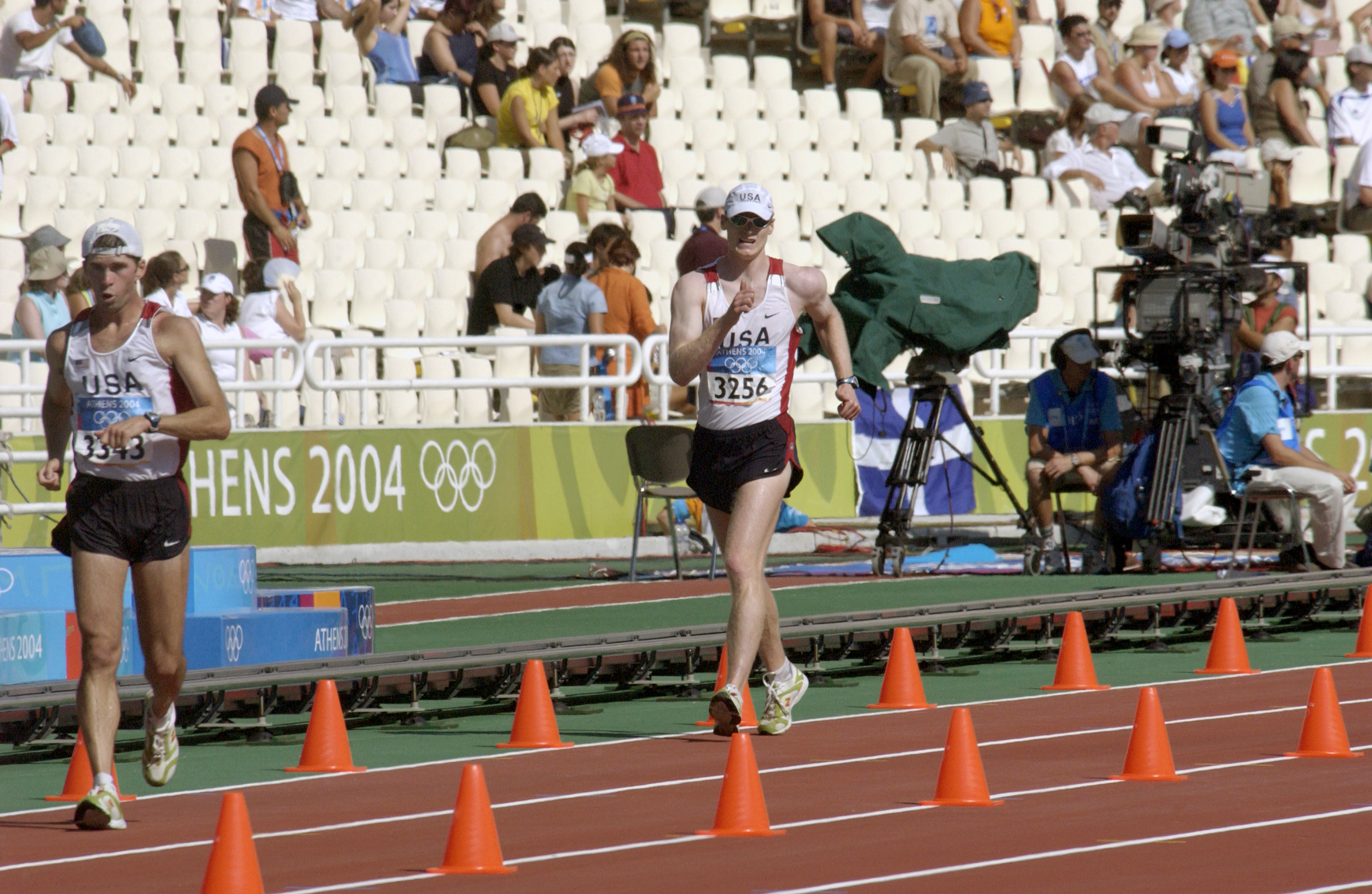 Timothy Seaman (left), and U.S. Air Force Capt. Kevin Eastler (right), compete in the 20K Racewalk competition during the 2004 Olympics at the Olympic Stadium in Athens, Greece.